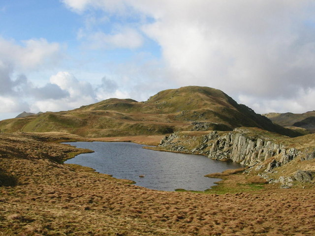 Moel Druman. From the slopes of Allt Fawr. There is no name on the map for the small lake in the foreground.